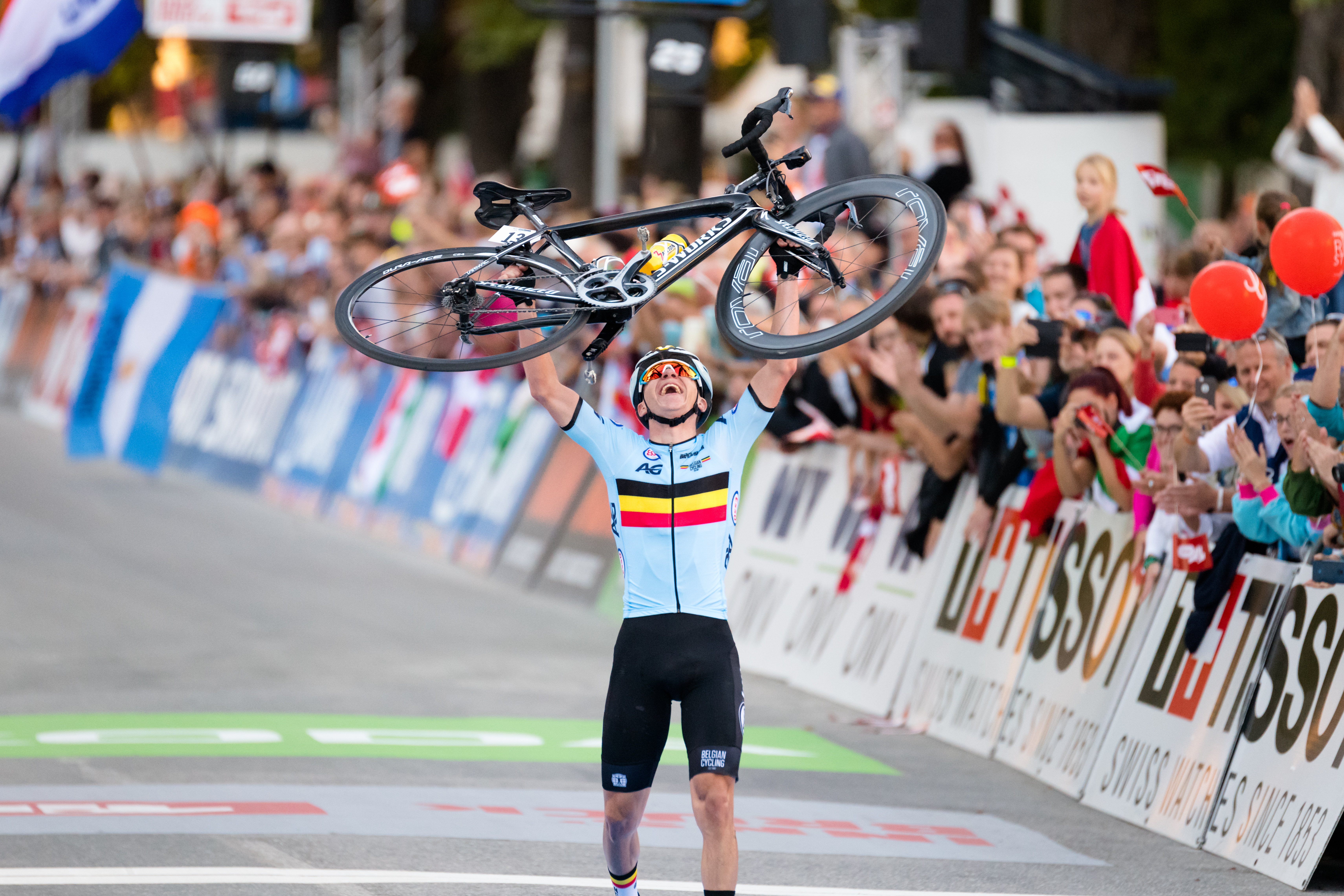 2018 UCI Road World Championships Innsbruck/Tirol Men Juniors Road Racel. Picture shows: Remco Evenepoel of Belgium